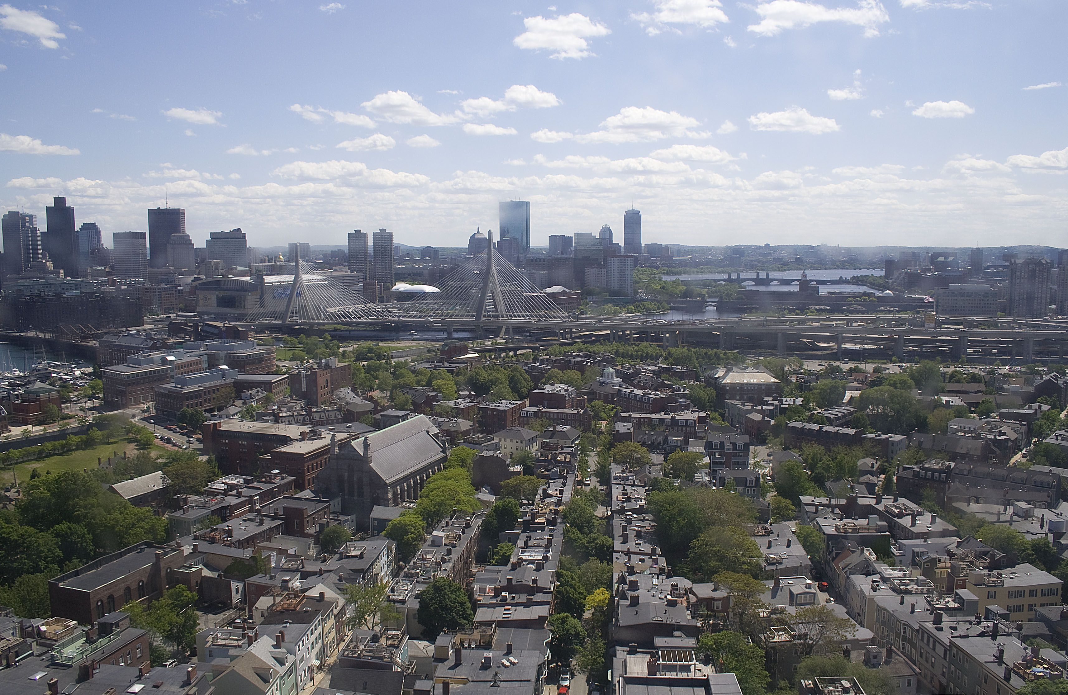 View of Zakim bridge and Boston from Bunker Hill Monument